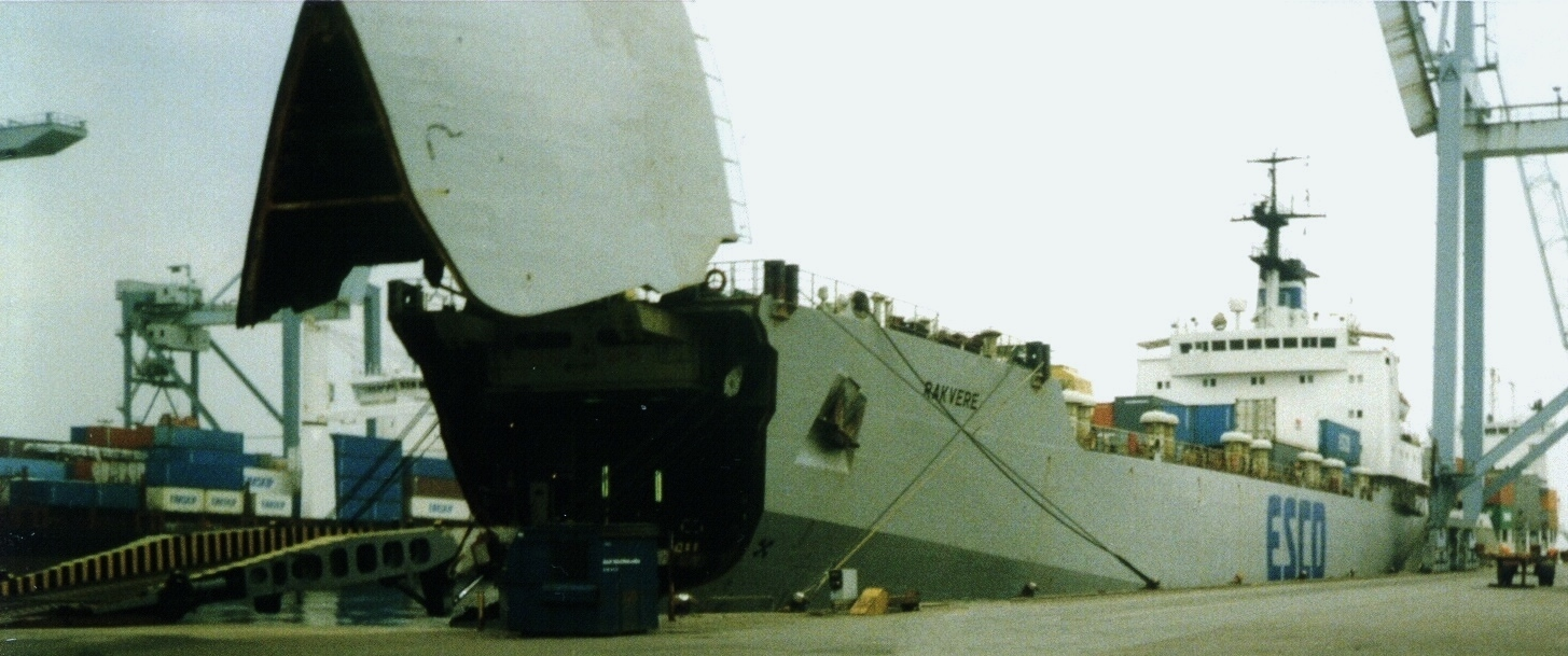 Ro-ro ship Rakvere in Aarhus (Denmark) 16 August 2001 (IMO 7730018) Status: Broken Up